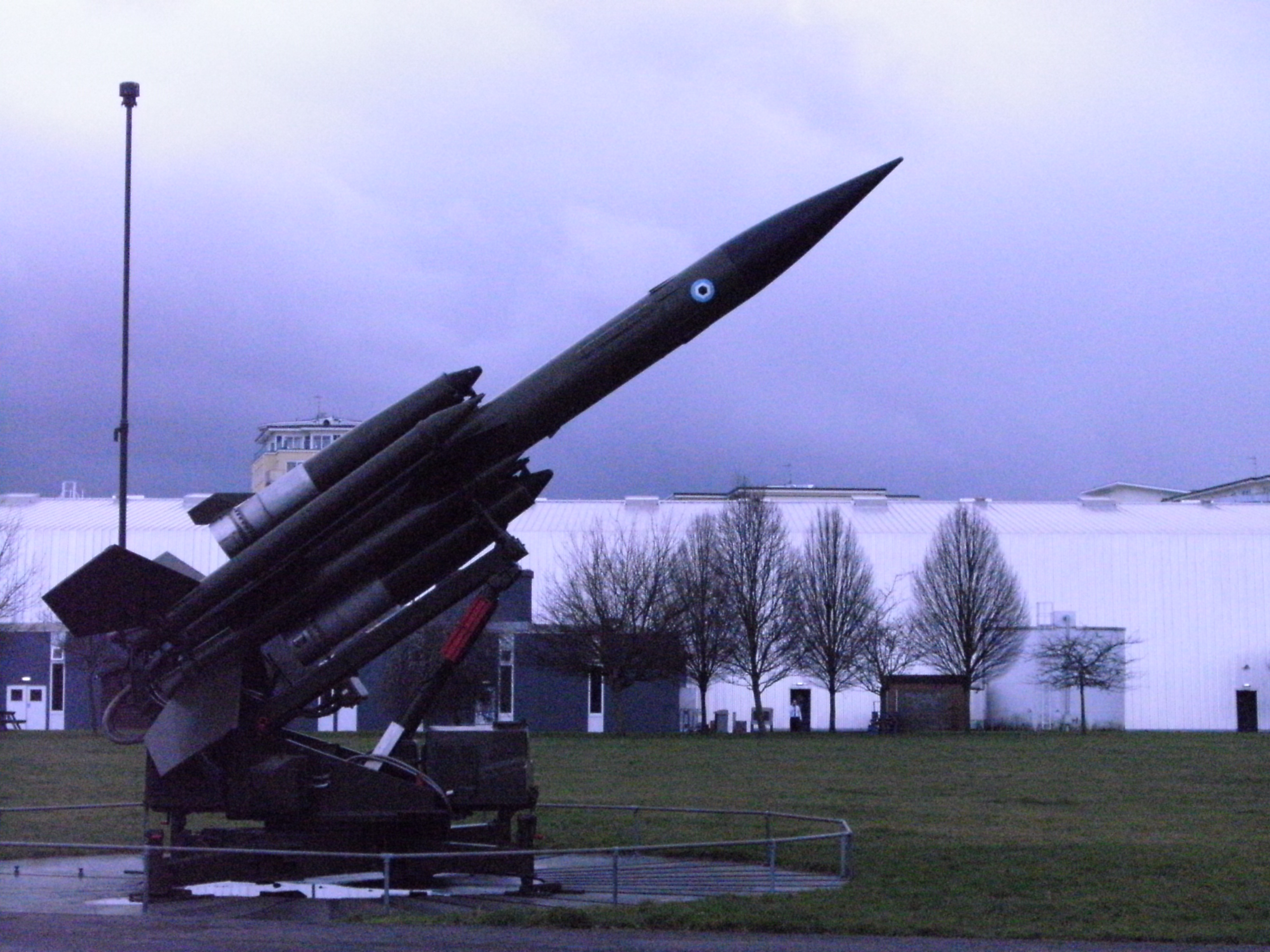 B.A.C. Bloodhound surface-to-air missile, painted in the colours of No 85 Squadron (RAF). This photo was taken as part of Britain Loves Wikipedia in February 2010 by Adam Morgan.